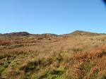 dooniver